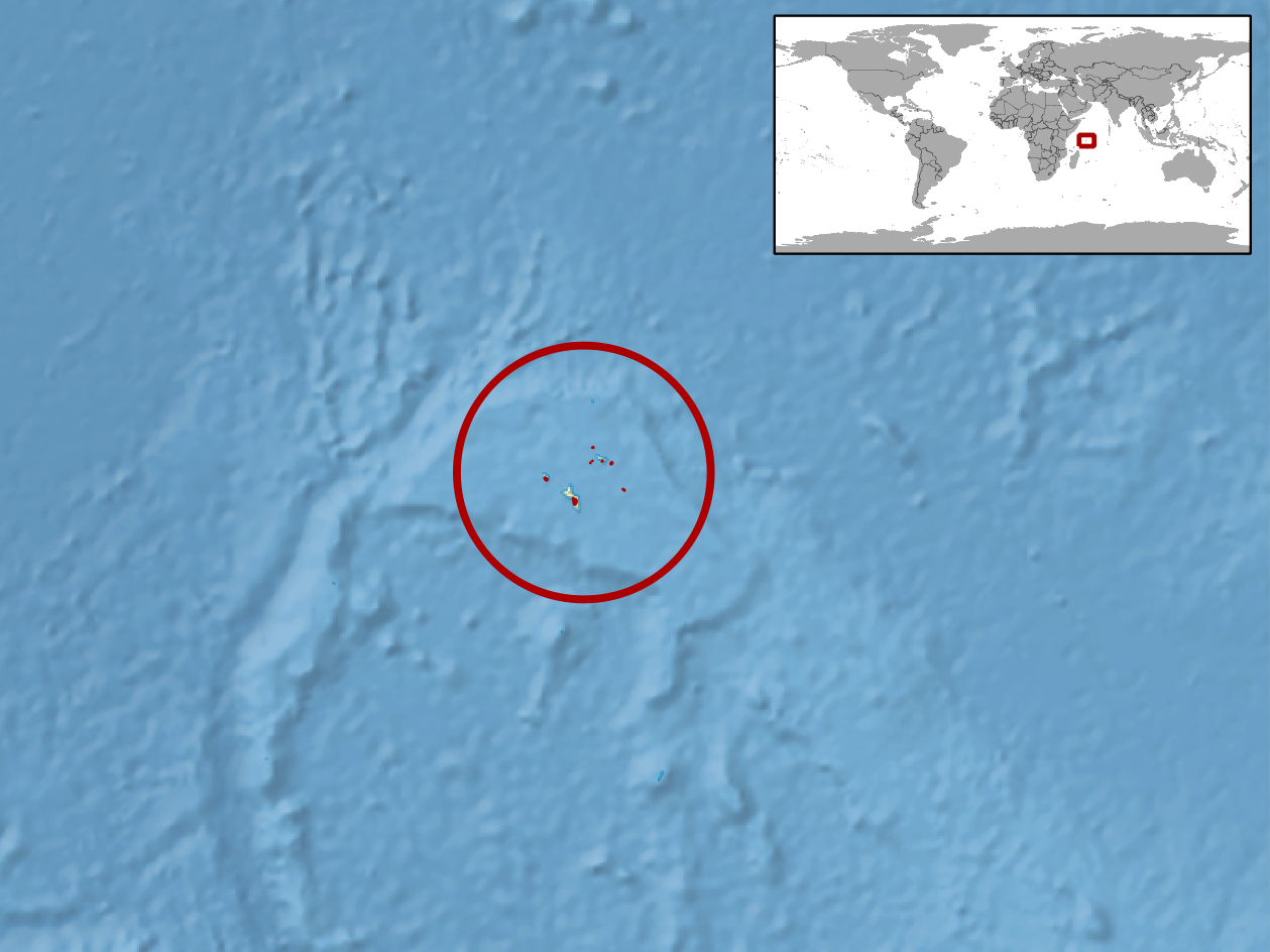 geographic distribution of Ailuronyx seychellensis (Native: Seychelles)